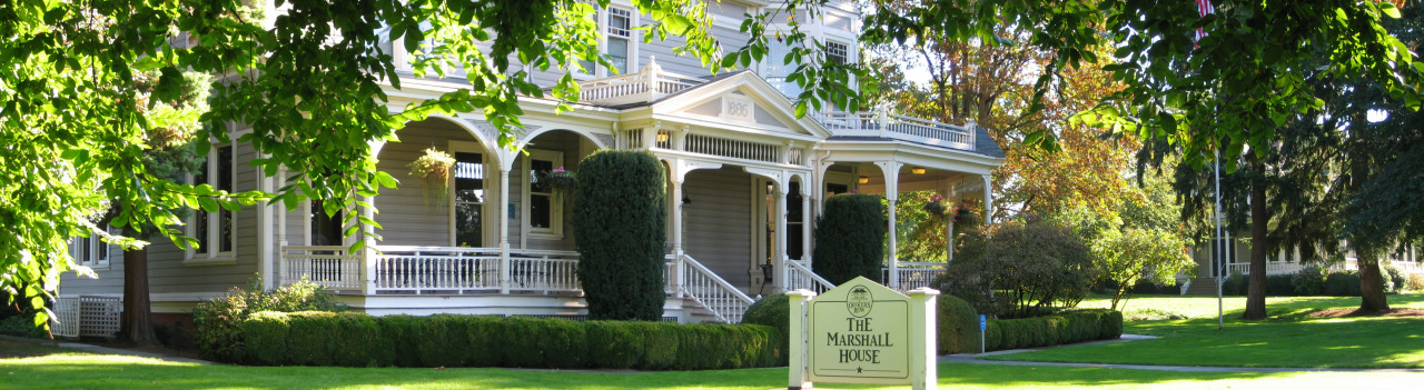 Officer Row Cabin in Fort Vancouver, WA, US